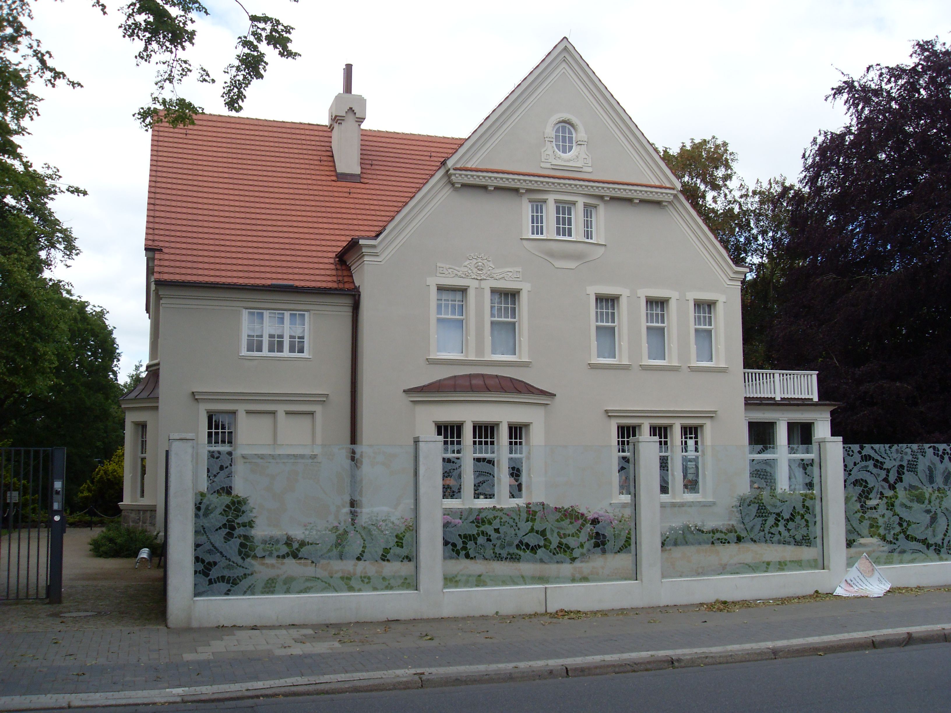 Villa Wachholtz in Neumünster, Hauptstraße